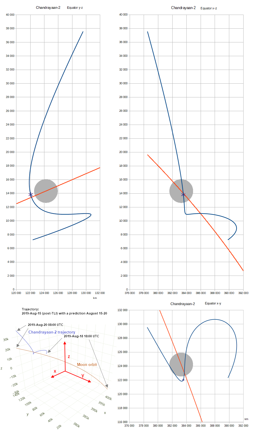 Capturing Chandrayaan-2 in the Moon's orbit